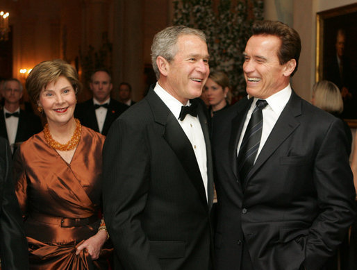 President Bush and First Lady Laura Bush walk with California Governor Arnold Schwarzenegger at a State Dinner for the Nation's Governors, Sunday, February 24, 2008 at the White House, in Washington D.C. White House photo by Joyce N. Boghosian